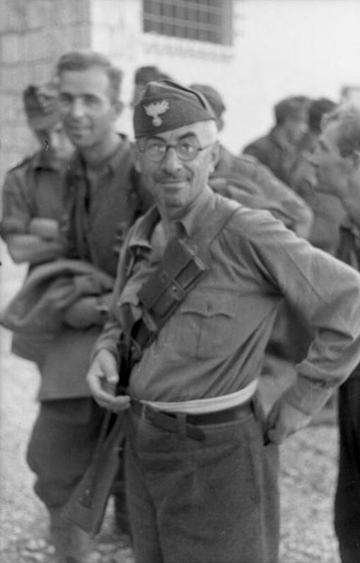 Information added by Wikimedia users.*